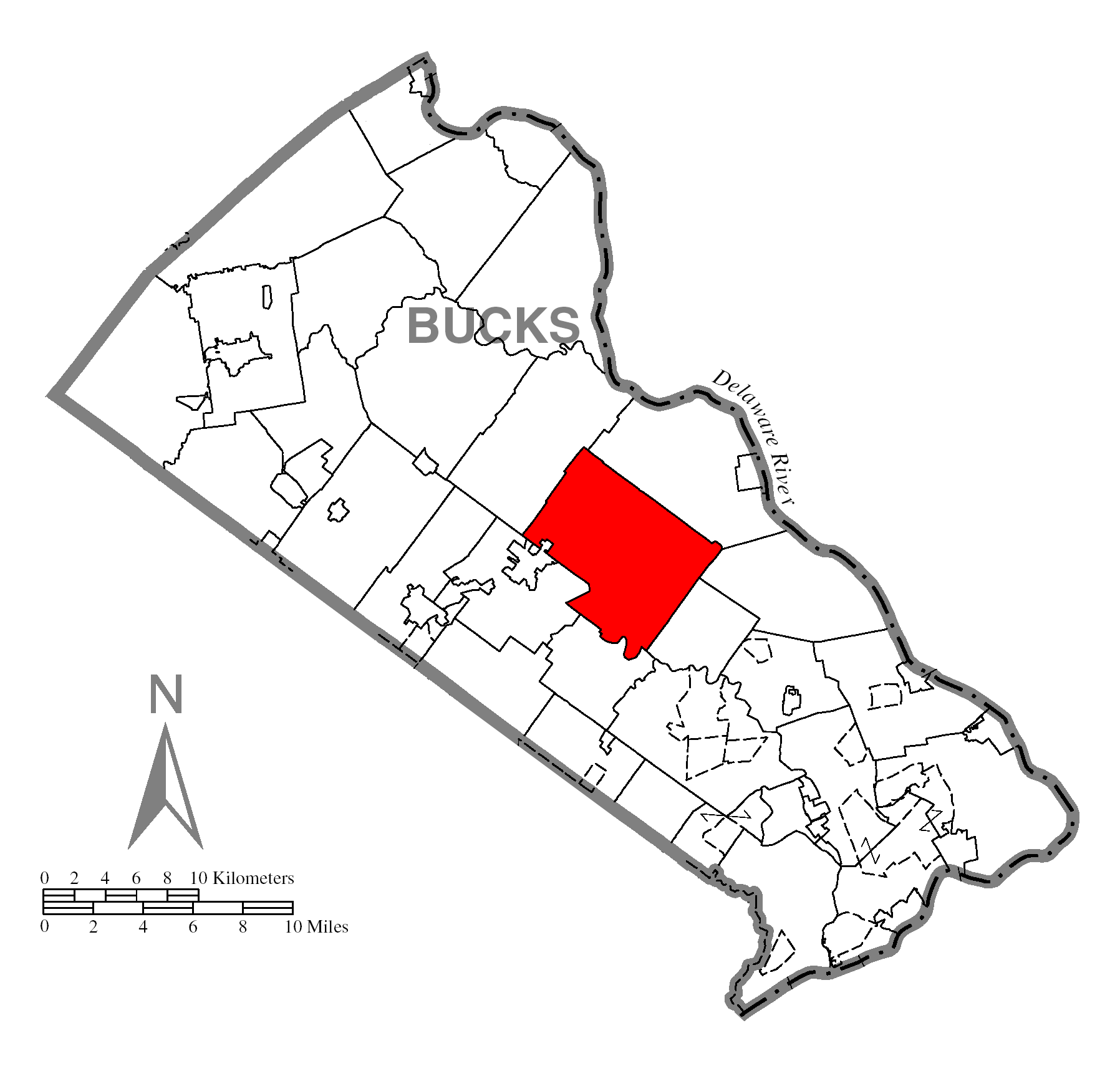 A map of Bucks County showing Buckingham Township, Pennsylvania (alternate) highlighted on the map.